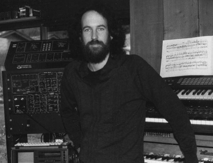 Stanley Jungleib posing in his home studio 1982